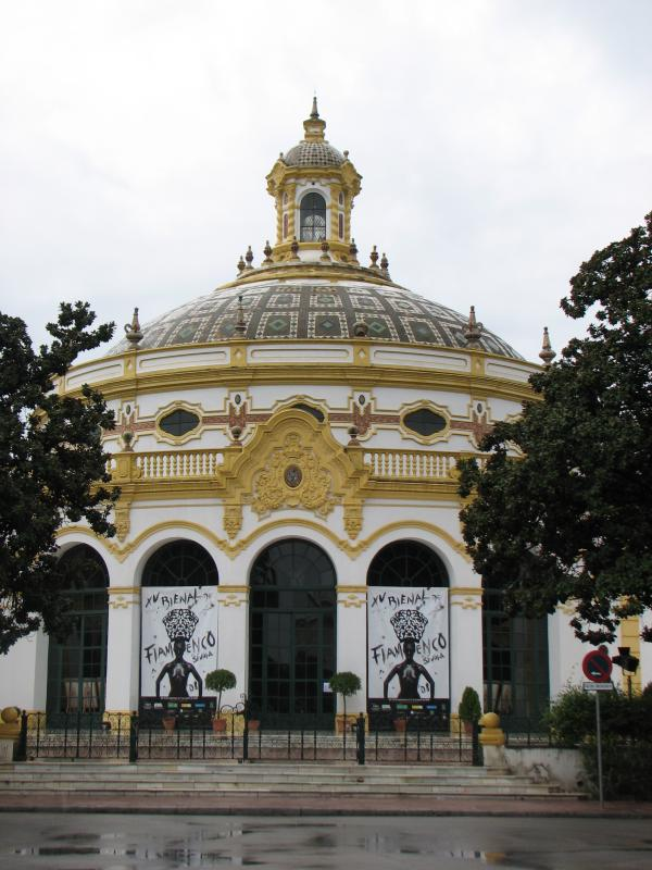 Seville September 2008. Casino in the Exposition grounds, now the Maria Luisa Park. The entrance to the Lope de Vega Theater, with posters for a Flamenco show.